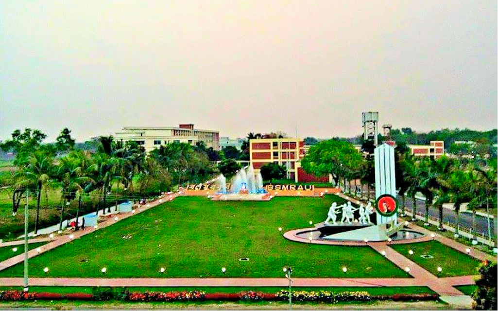 BSMRAU, aerial view from west